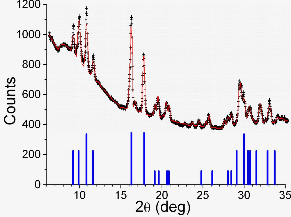 This image compares X-ray diffraction patterns of gamma-Boron. The top curve is taken from the 2009 Nature paper (supplementary information) by Oganov et al. . The bottom stick pattern is from 1965 Nature paper (Table 1) . The image unambiguously proves that gamma-Boron was synthesized by Wentorf in 1965 and reported in a major scientific journal (though without solving the crystalline structure). Comparison of X-ray diffraction patterns of gamma-Boron reported by Oganov et al. and Wentorf